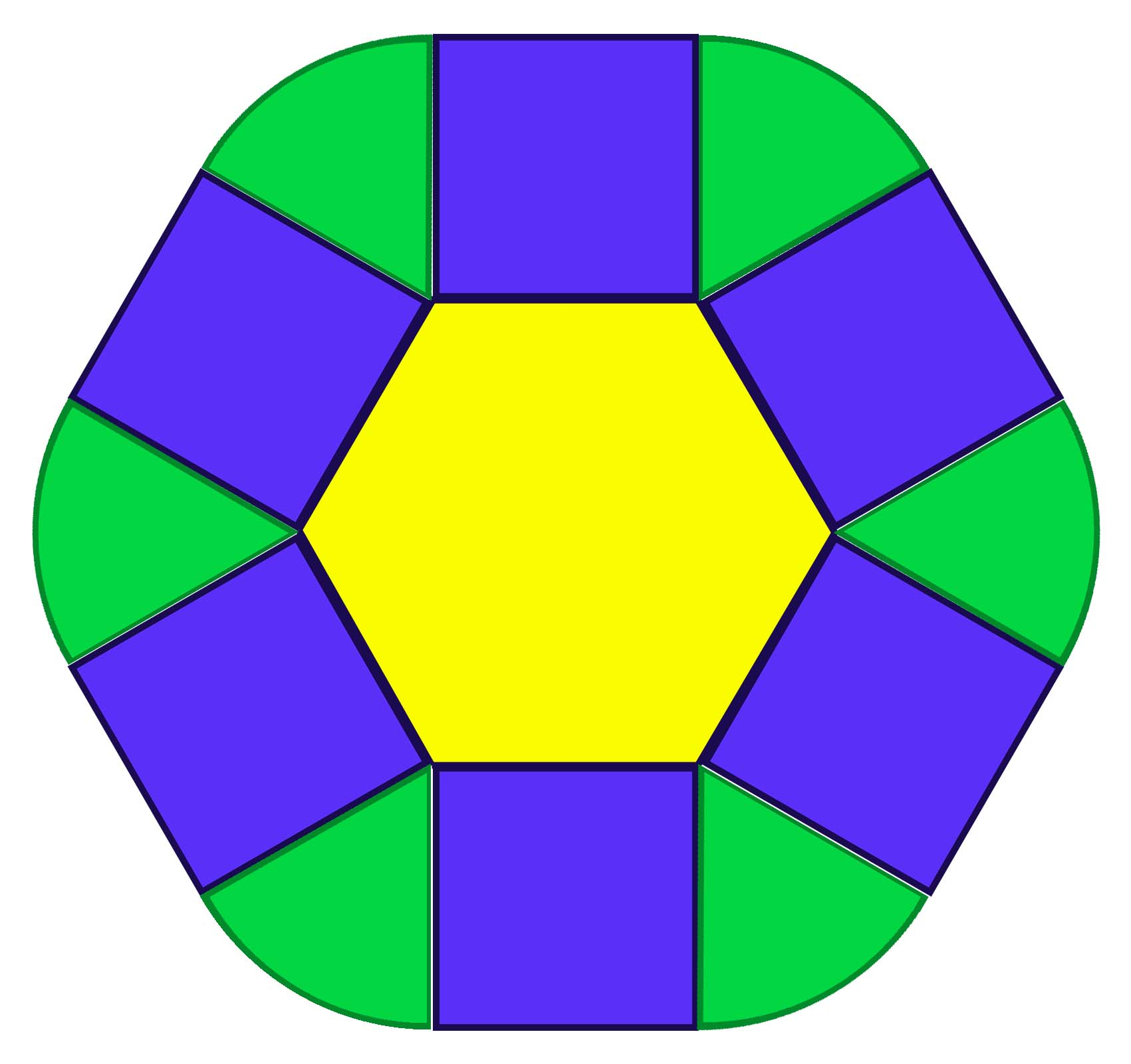 Sum of a hexagon with a disk